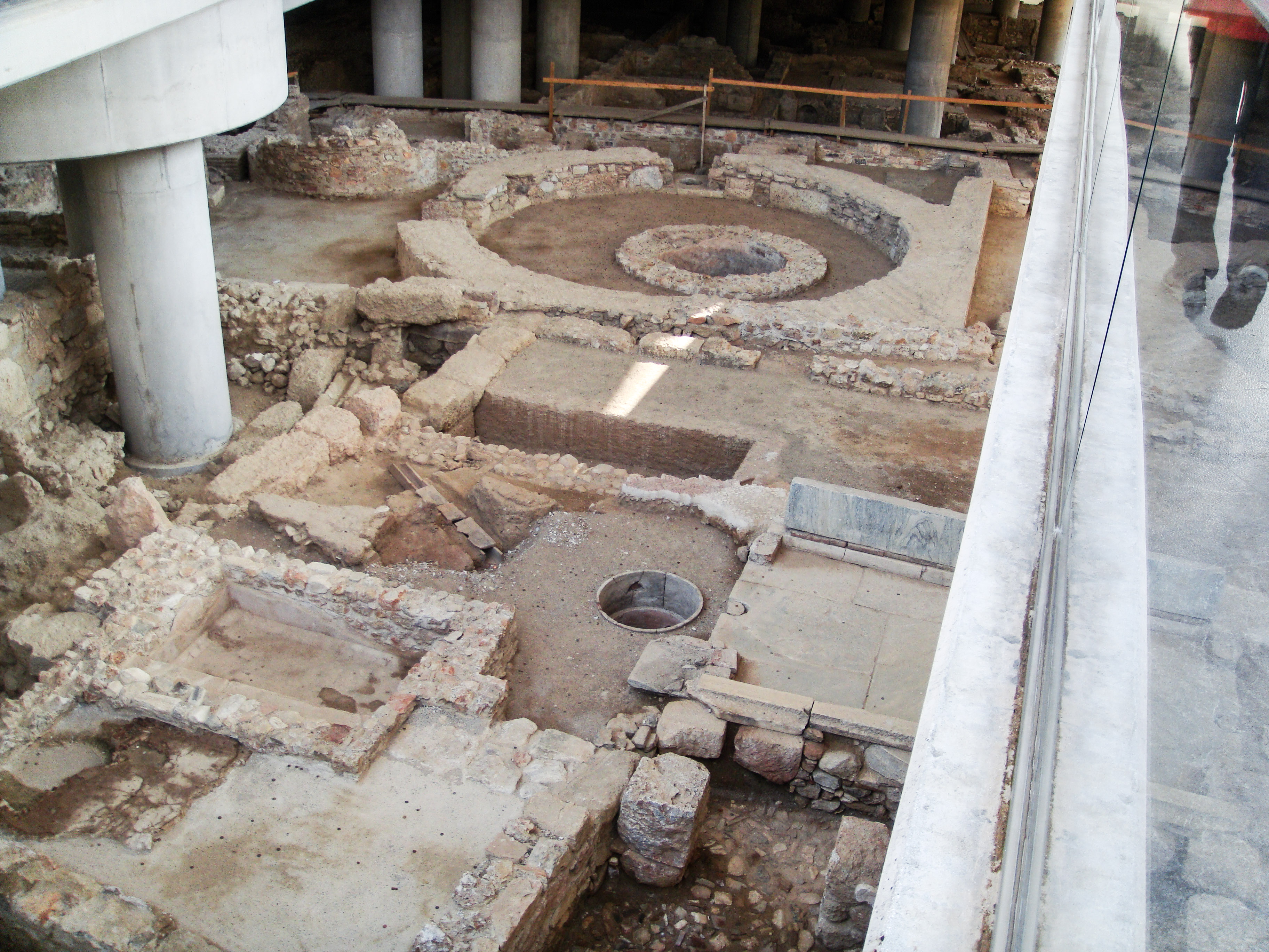 Archaeological site under the Acropolis Museum, Athens